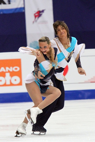 Ekaterina Pushkash / Jonathan Guerreiro at the 2010-2011 Junior Grand Prix of Figure Skating Final.